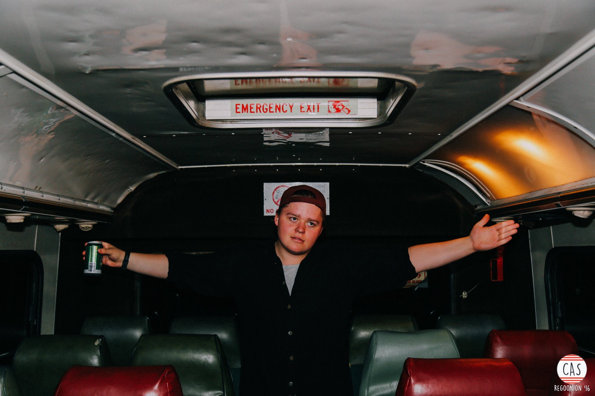 Picture of Baker within an empty bus with his arms outspread. Within one hand, he holds a can of Victoria Bitter